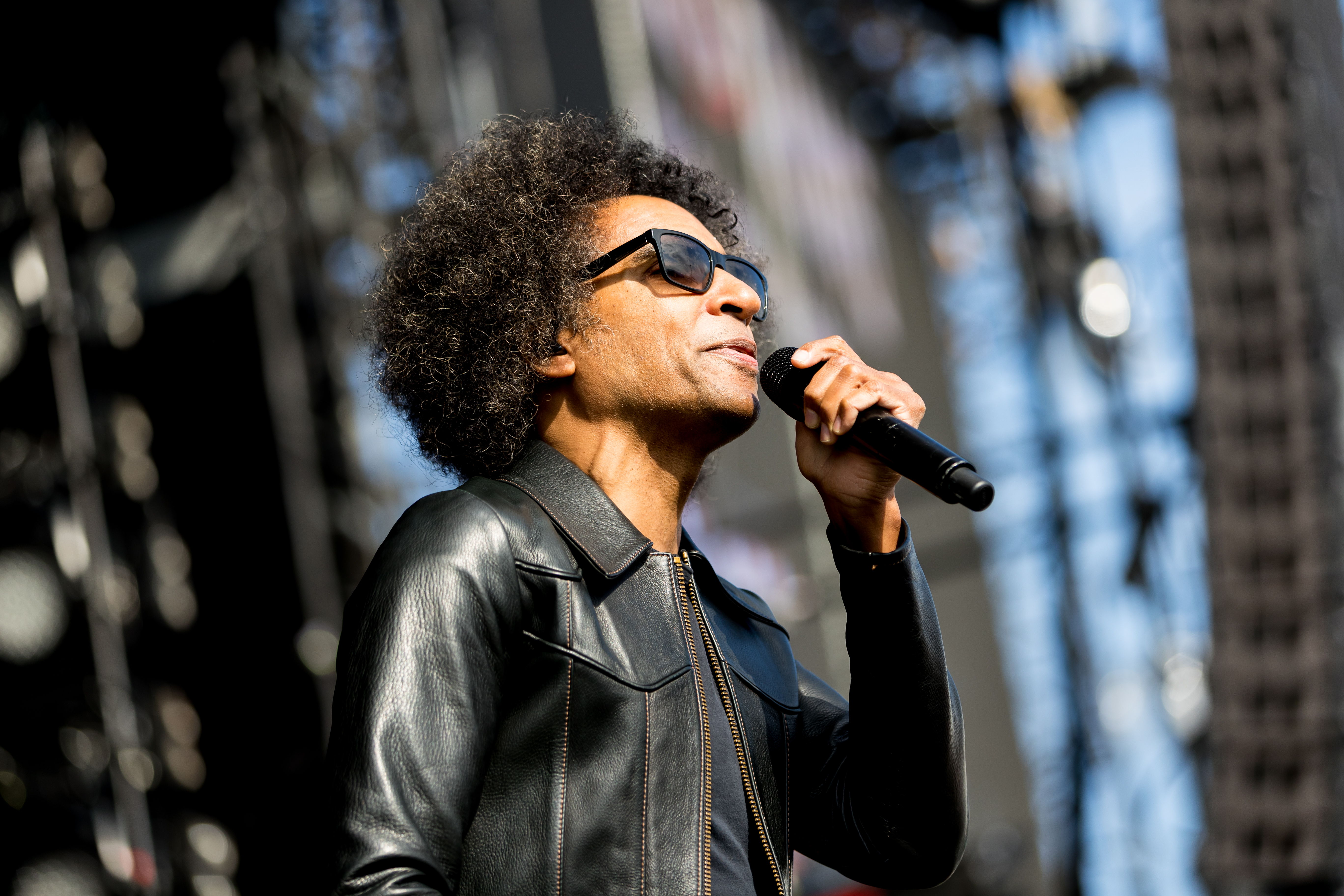 Alice in Chains during Rock am Ring ( at Nürburgring, Rheinland-Pfalz, Germany on 2019-06-07, Photo: Sven Mandel Promotion by Live Nation (